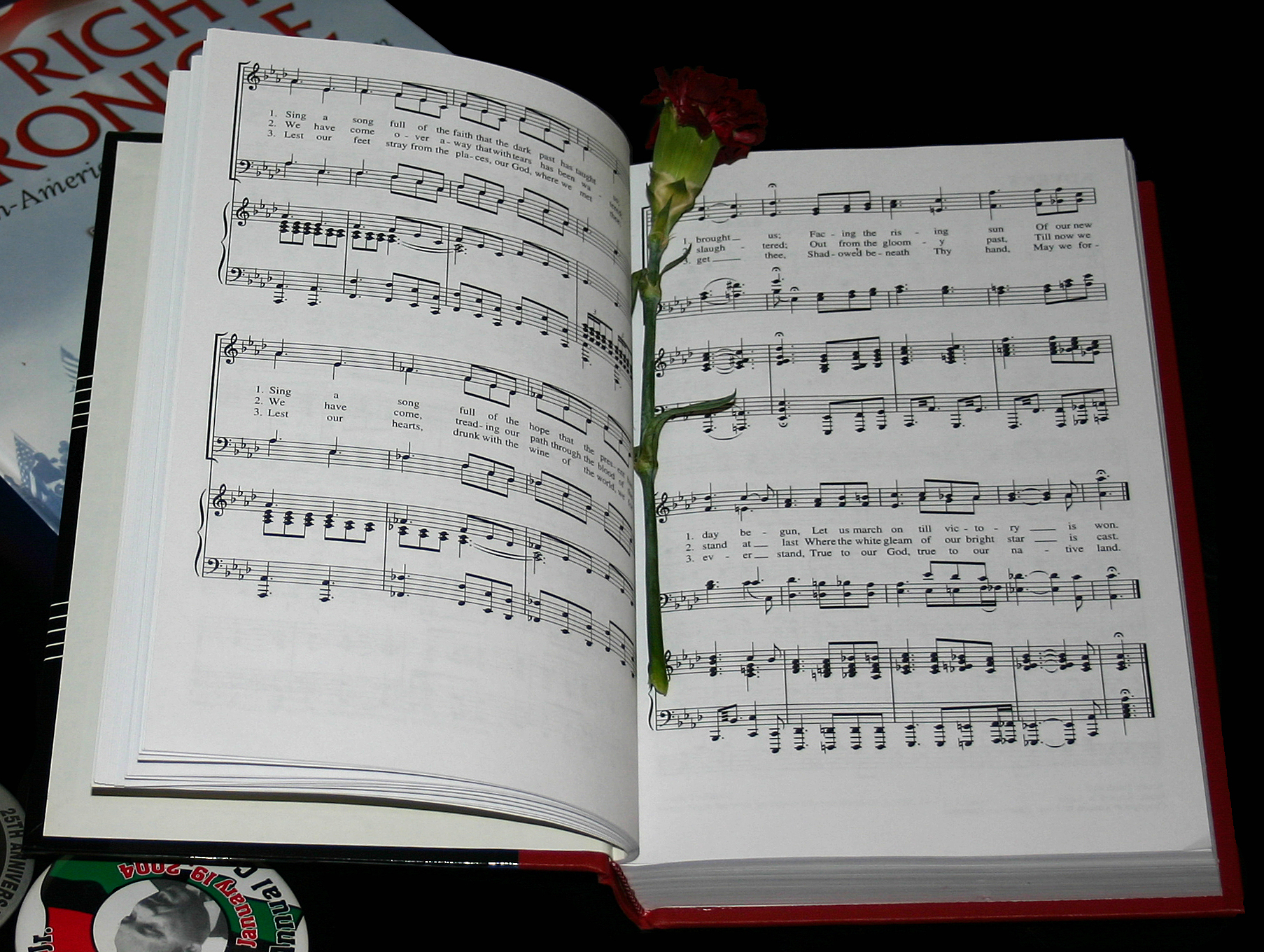 Read more about the history of "Lift Every Voice and Sing," also known as the Black National Anthem.